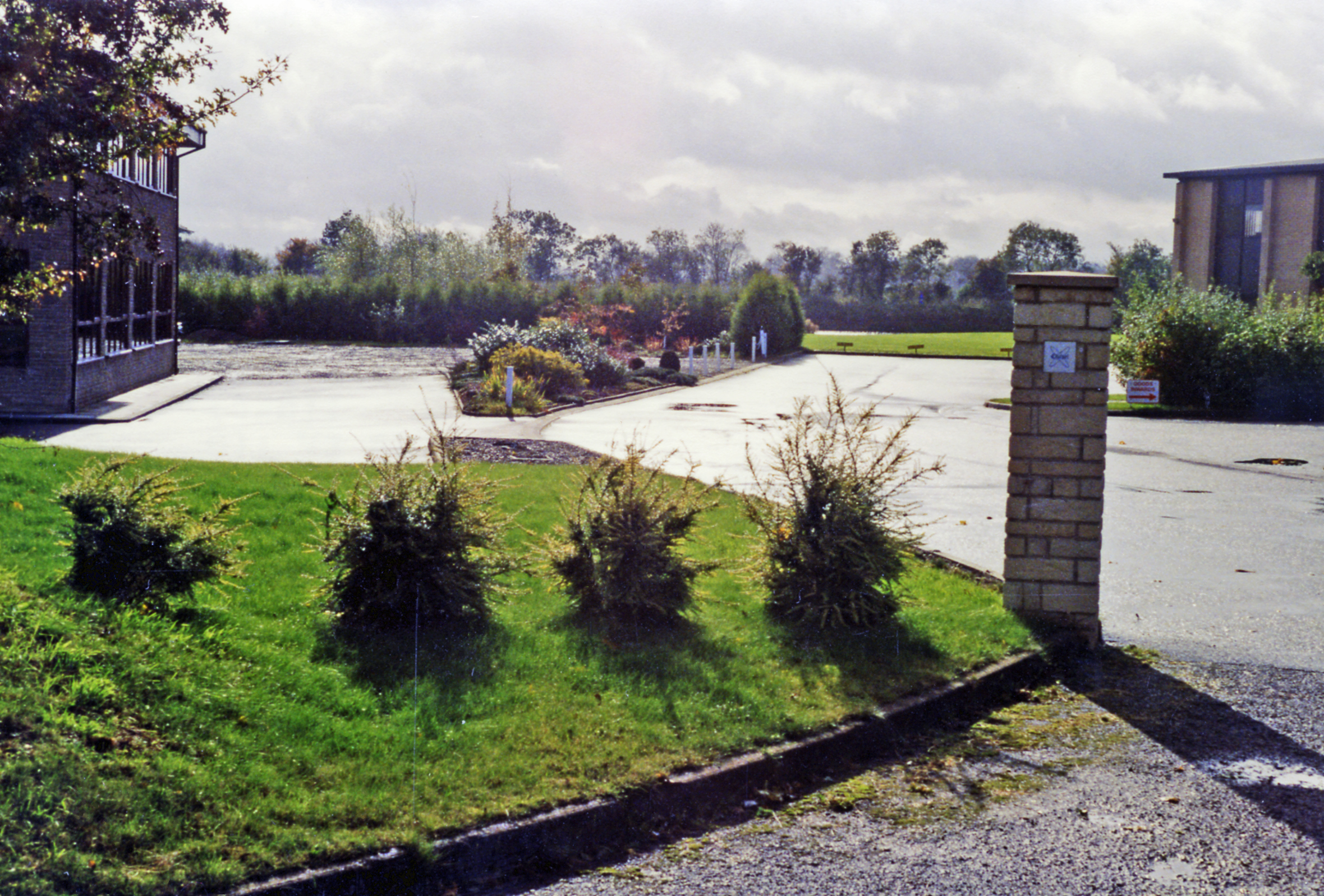 Site of Fairford station, 1992. View westwards from the A417 road half a mile east of Fairford village, where the terminal station of the line from Oxford via Witney was situated until the line was closed on 18/6/62.